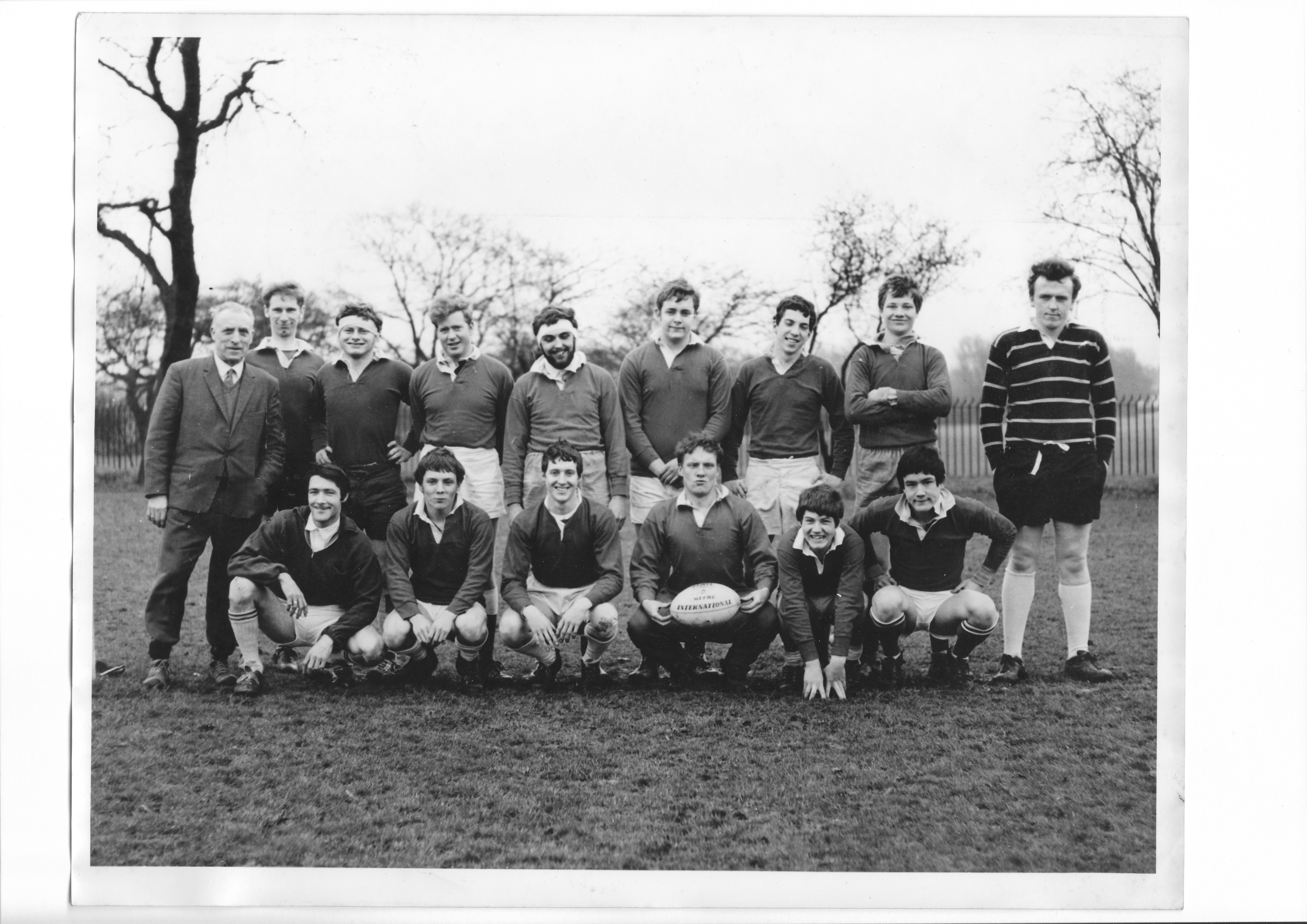 B/W Rugby Team Photo